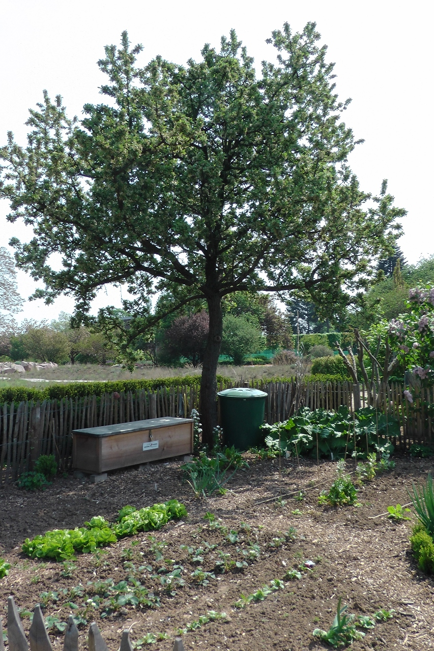 Vegetable garden within the botanical garden at the University of Mainz, Germany